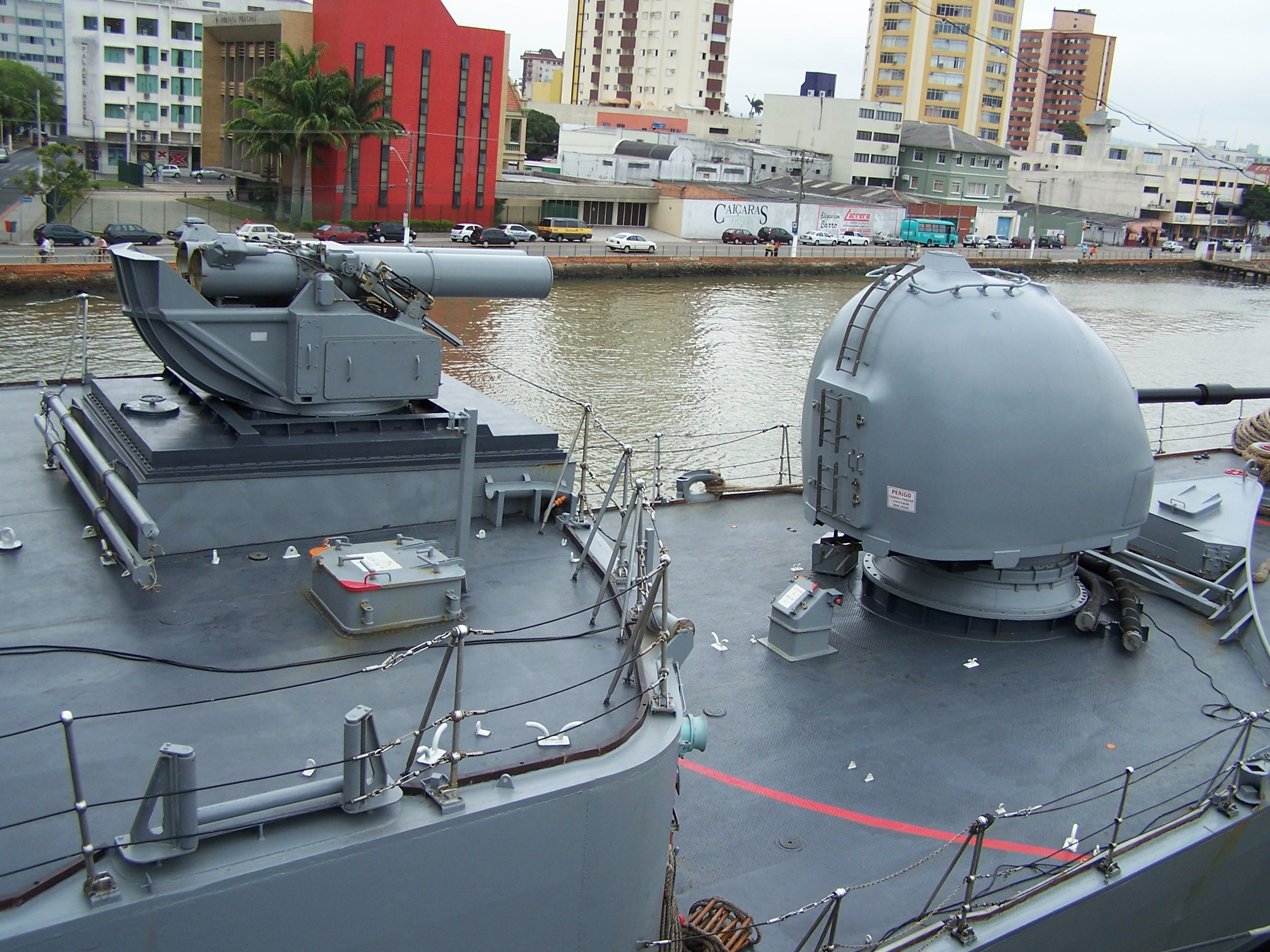 A view of Independência's 4.5"gun and Bofors ASW rocket launcher.